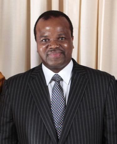 President Barack Obama and First Lady Michelle Obama pose for a photo during a reception at the Metropolitan Museum in New York with King Mswati III.